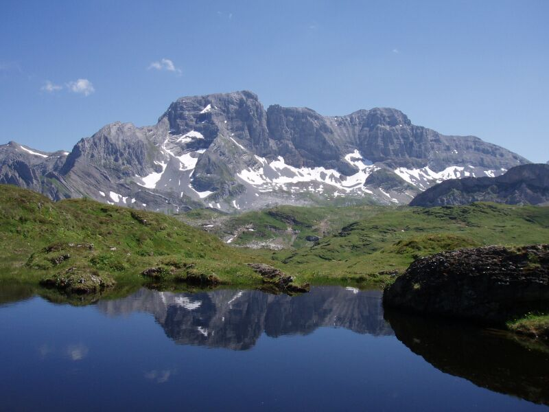 Mount Bös Fulen as seen from the lake Silberenseeli in Canton of Schwyz, Switzerland.